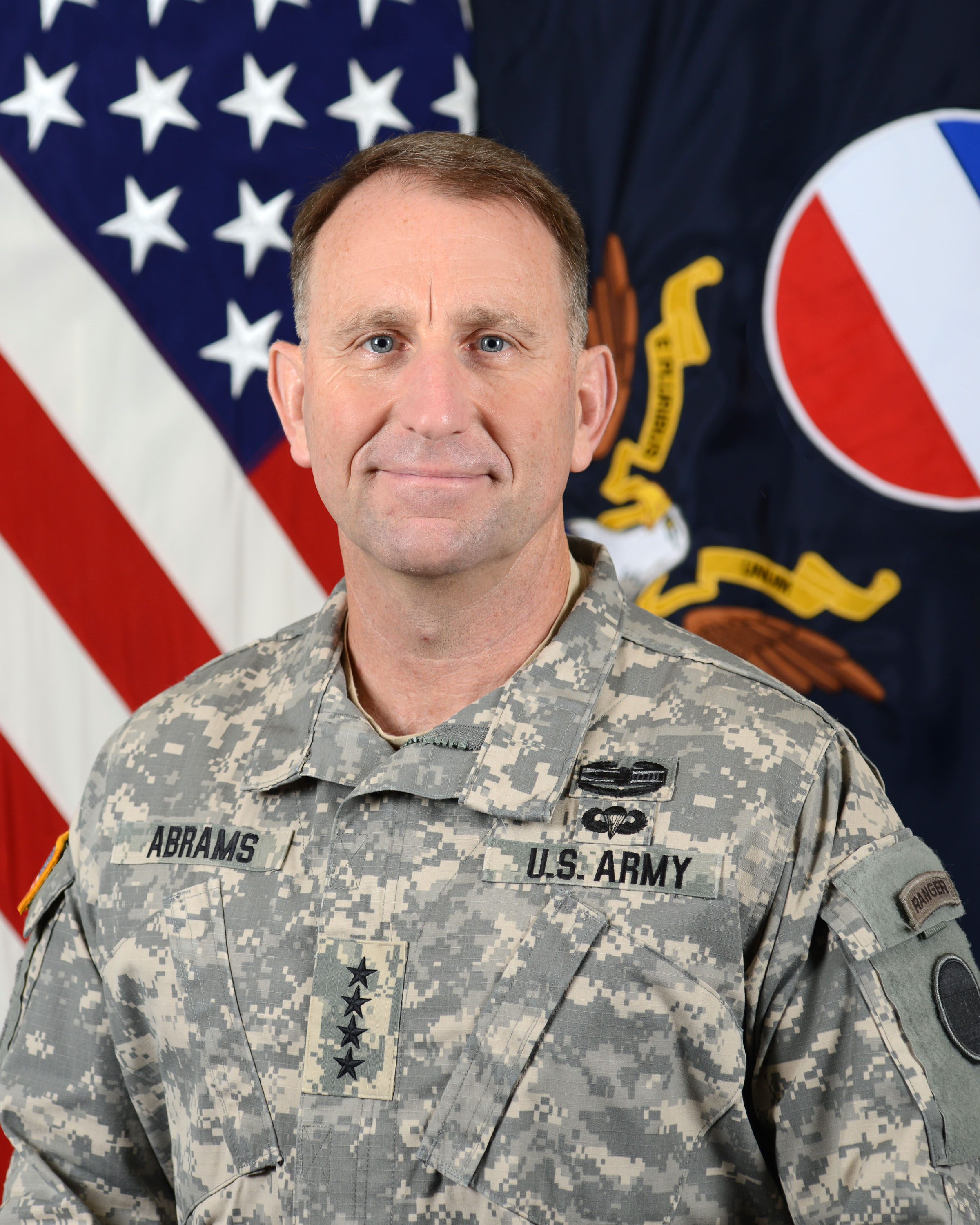 General Robert B. Abrams, Commanding General of U.S. Army Forces Command